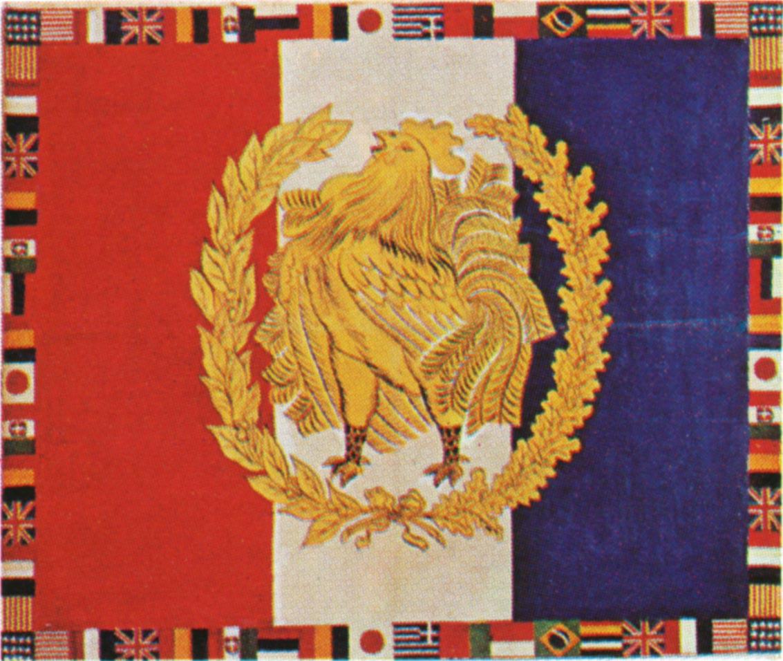 Victory Rooster. Printed silk square 92 x 112 cm designed by Raoul Dufy, produced by Bianchini-Férier, sold by Charvet in 1918. The pattern was printed by Bianchini Férier under reference n° 51727 (Dora Perez-Tibi, Dufy, Flammarion, 1989, p. 112-113 et 325). Raoul Dufy transferred all his copyrights to Bianchini Férier by contract (Anne Toulonnas et Jack Vidal, Raoul Dufy : l'oeuvre en soie, Barthélémy, 1998, p. 41-42 ; see also Inventaire général du patrimoine culturel).Reproduced in Raoul Dufy créateur d'étoffes 1910-1930, Musée d'art moderne de la ville de Paris, Paris, 1977, cat. n° 36 .